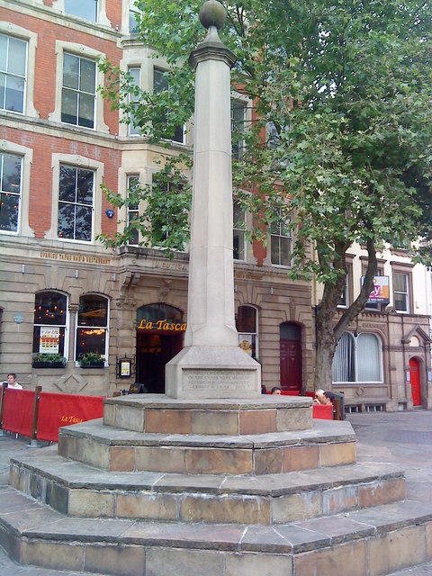 Weekday Cross, Data from Geograph: Description: Reinstated by Nottingham Civic Society in 1993. ICBM: 52.951430463127, -1.1460727320331 Location: (about 0 km from) near to Nottingham, Great Britain.